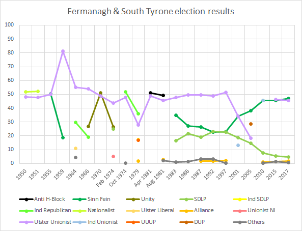 Fermanagh & South Tyrone elections